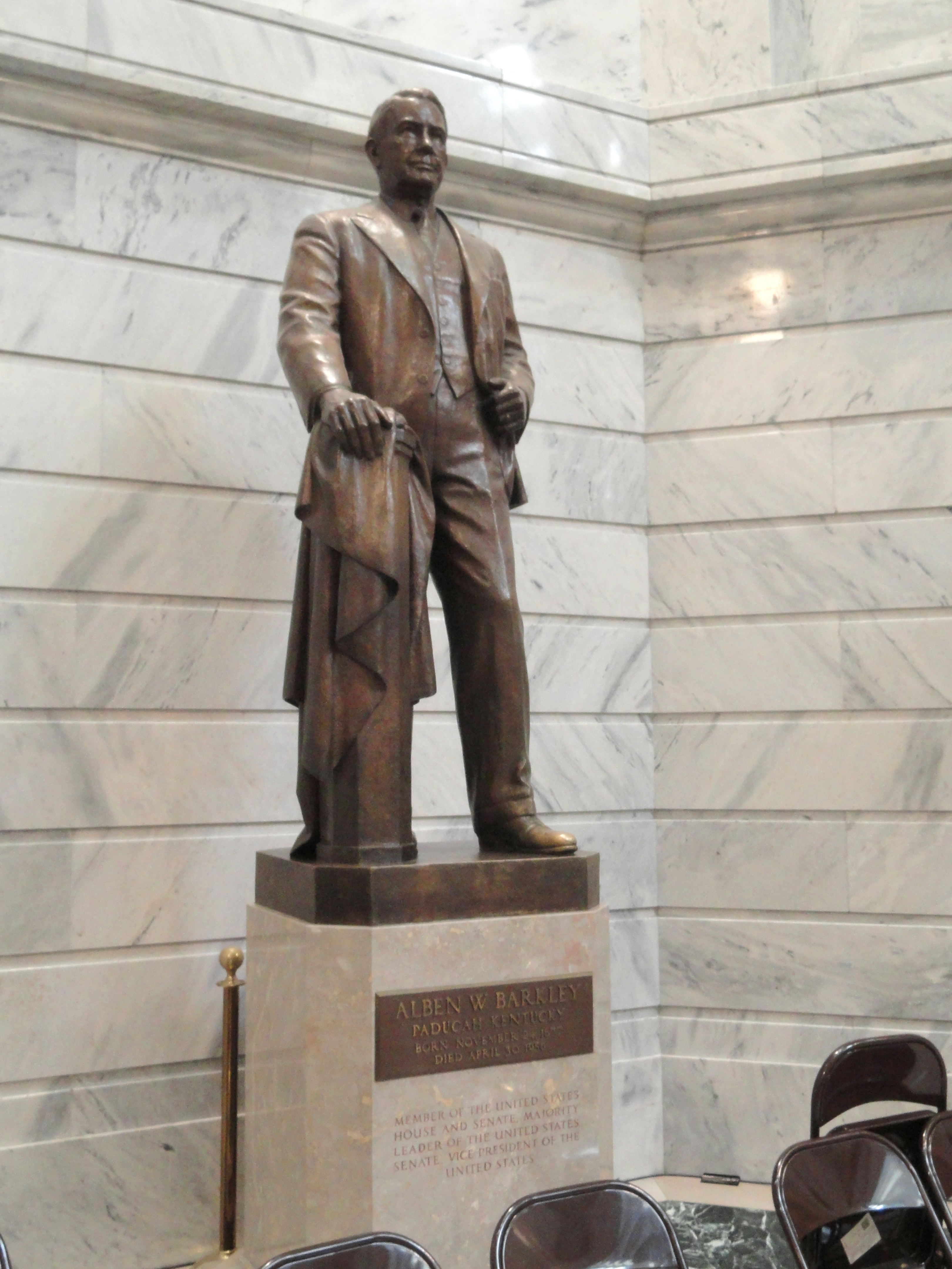 Statue of Alben W. Barkley by Walker Kirtland Hancock (1901-1998), within the Kentucky State Capitol, Frankfort, Kentucky, USA. Dedicated on October 3, 1963. This artwork is now in the public domain because it had no copyright notice.